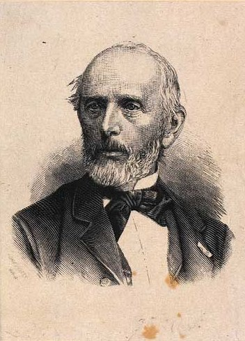 Aldo Friedrich Wilhelm Roller Güntelberg (1819-1891), Danish army officer